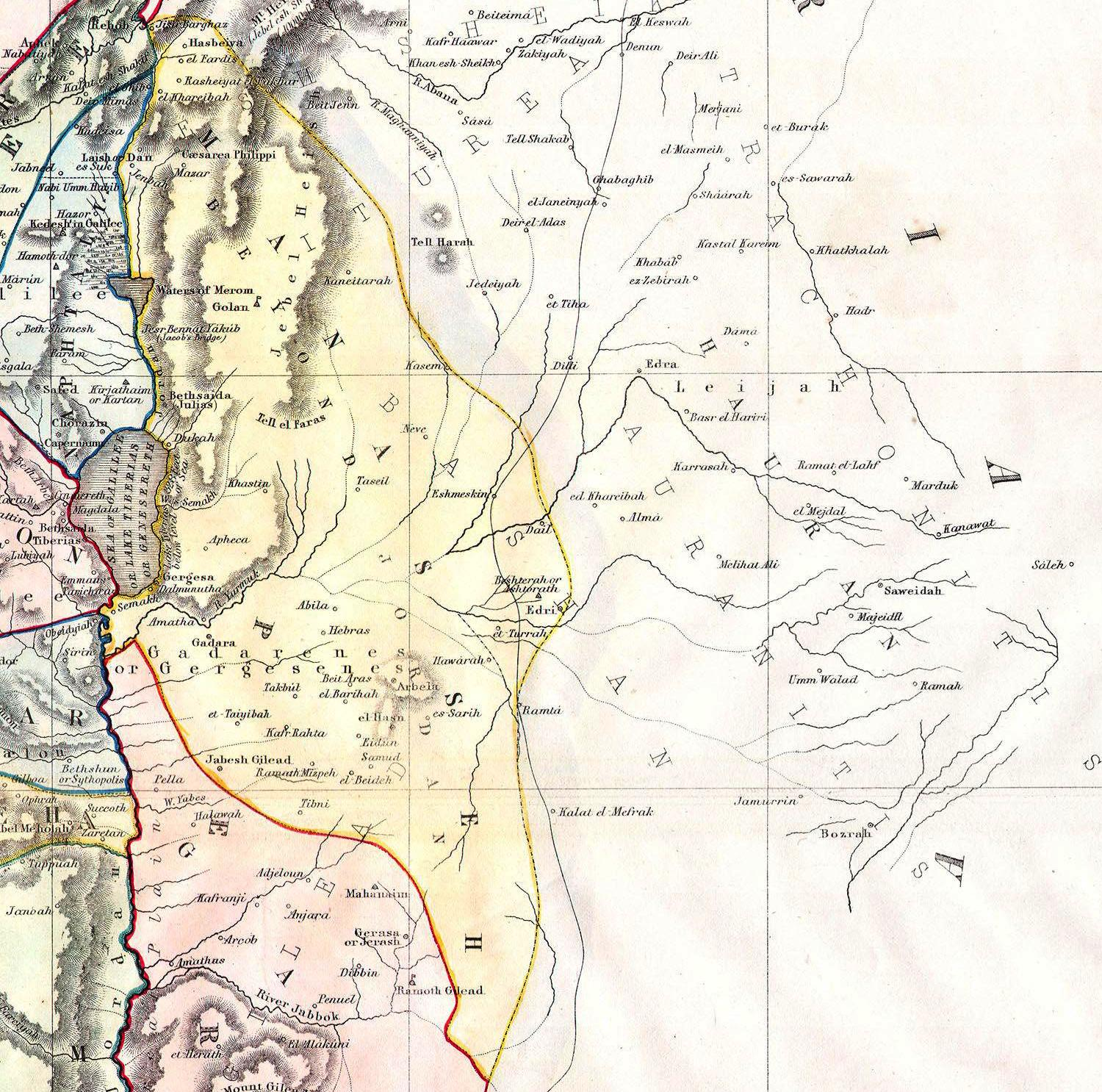 This beautiful hand colored map is a steel plate engraving of Israel / Palestine or the Holy Land. Depicts the region as it would have been during the period of the Twelve Tribes of Israel. There are numerous notations referencing well, caravan routes and Biblical locations. Dated “Liverpool, Published by George Philip and Sons 1852”.